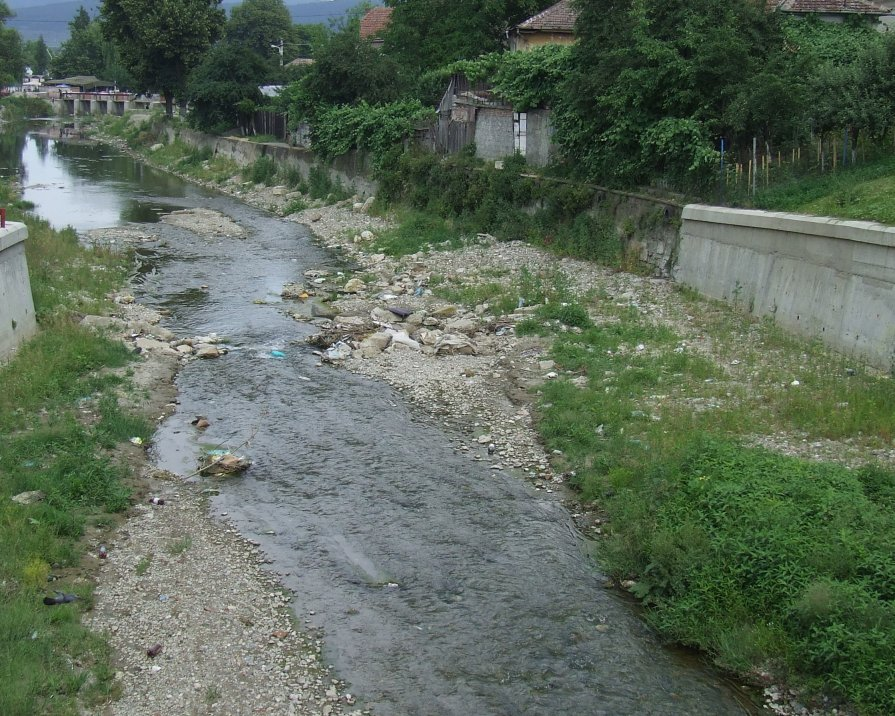 Image from Aiud, Romania